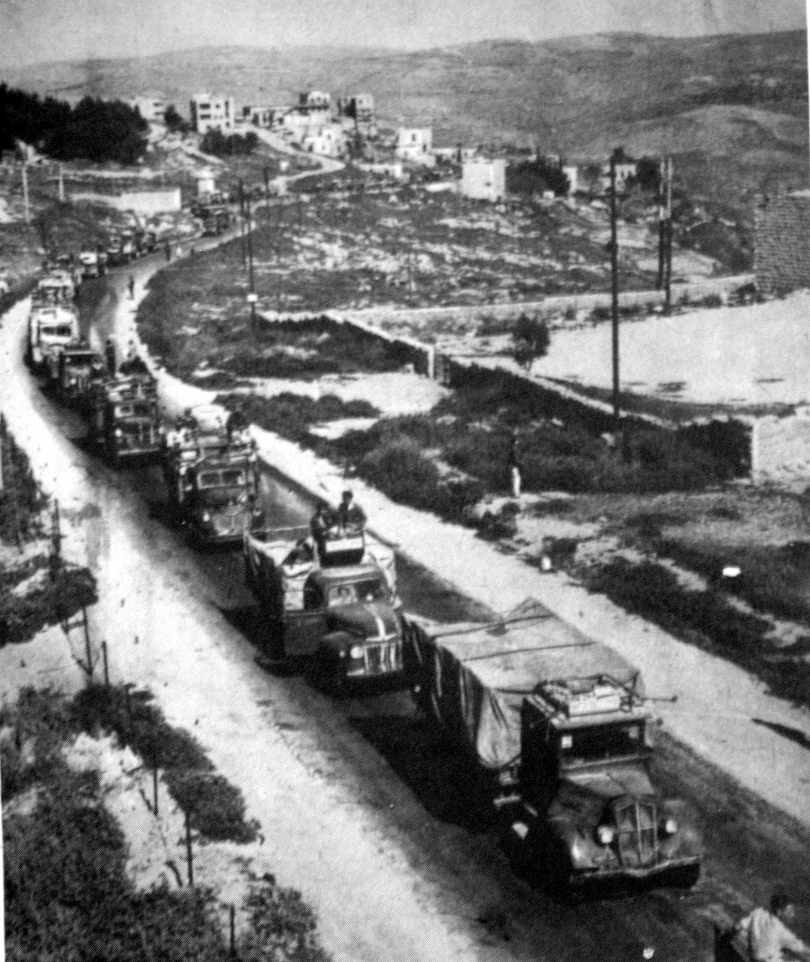 The first supply convoy reaches the outskirts of Jerusalem after the seige had been finally broken, just before the festival of Passover, April 1948. (sic)